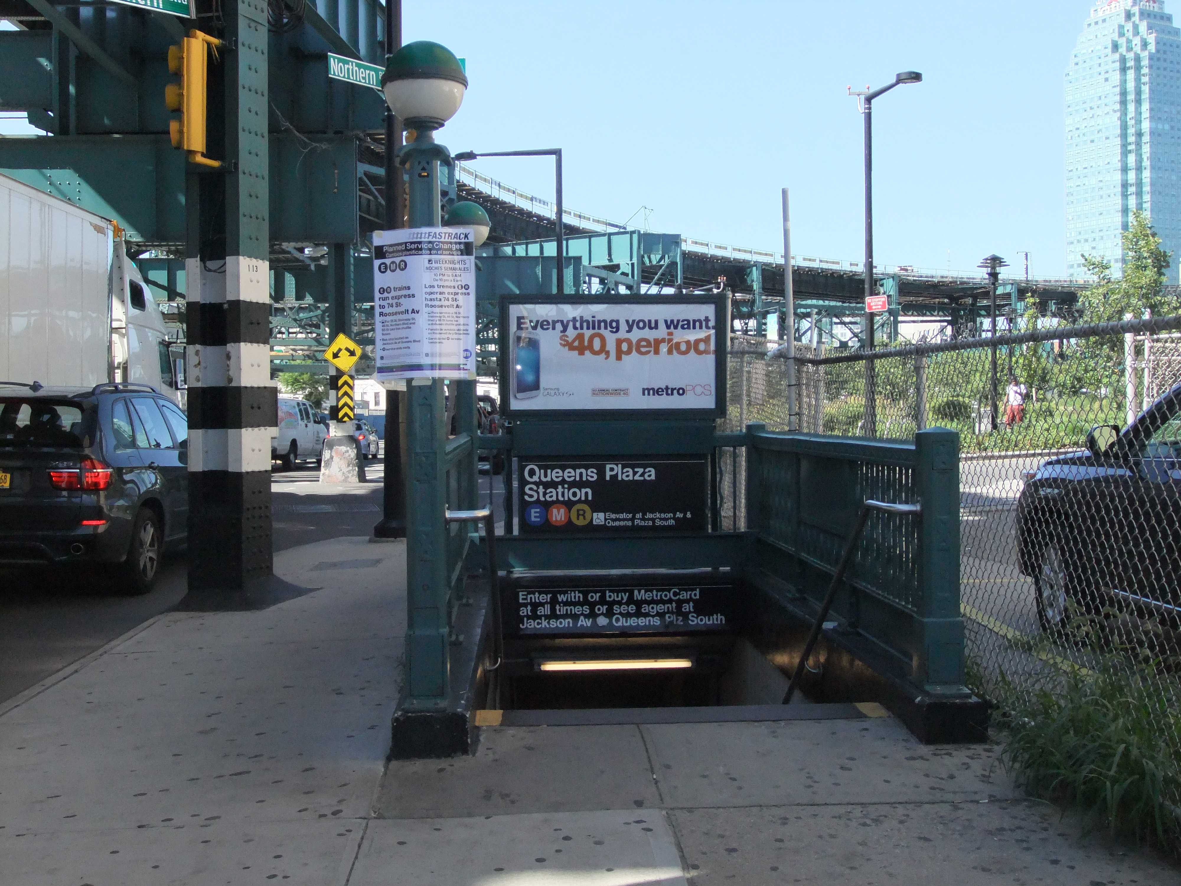 Exit at 41st Avenue and Northern Boulevard to the Queens Plaza station.